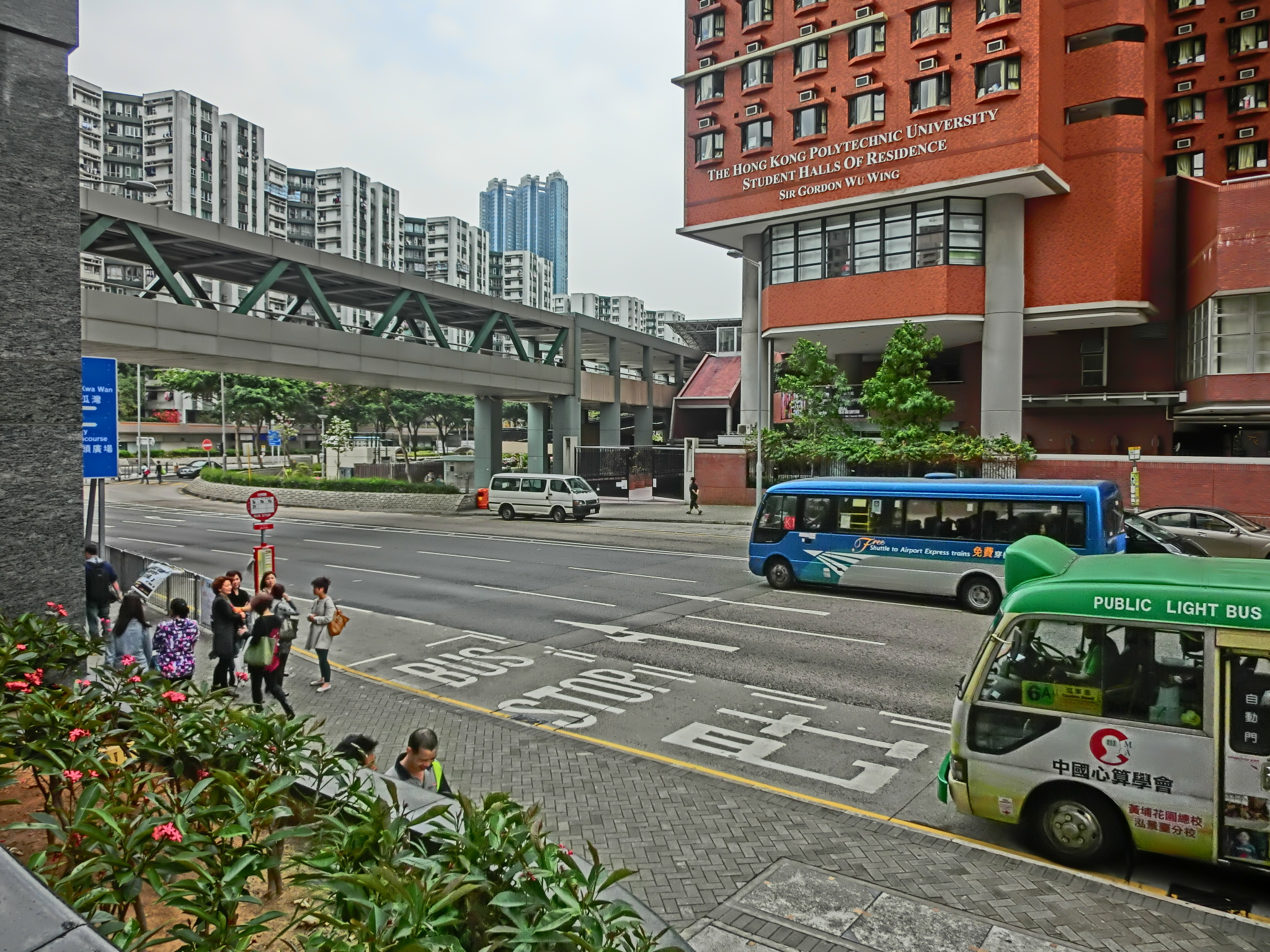 紅磡, Hung Hom, Hong Kong